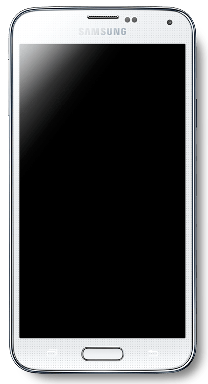 Samsung Galaxy S5 render created by GadgetsGuy and used with permission. Original PSD available at